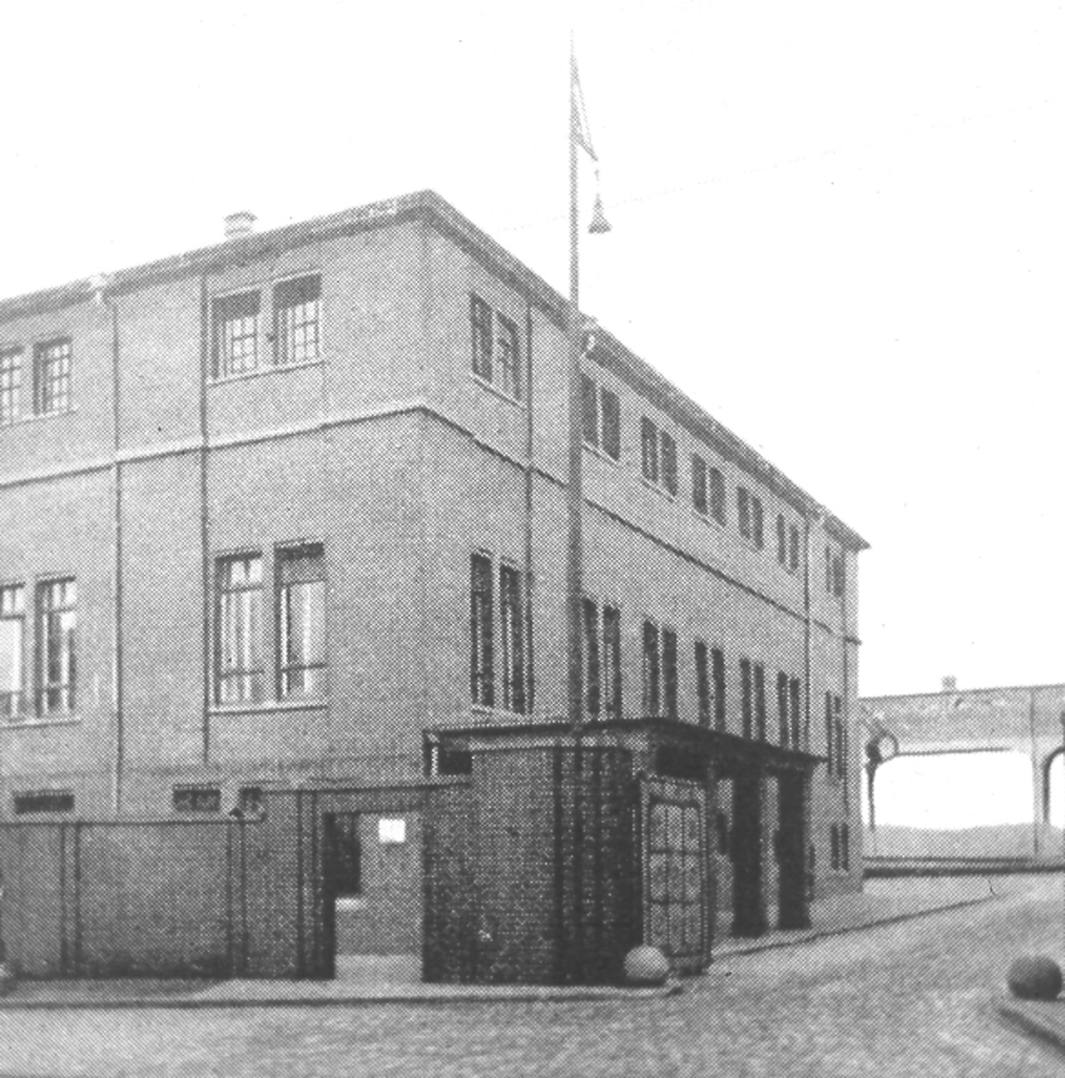 Administrative Building of Zollverein shaft 4/11, 1920